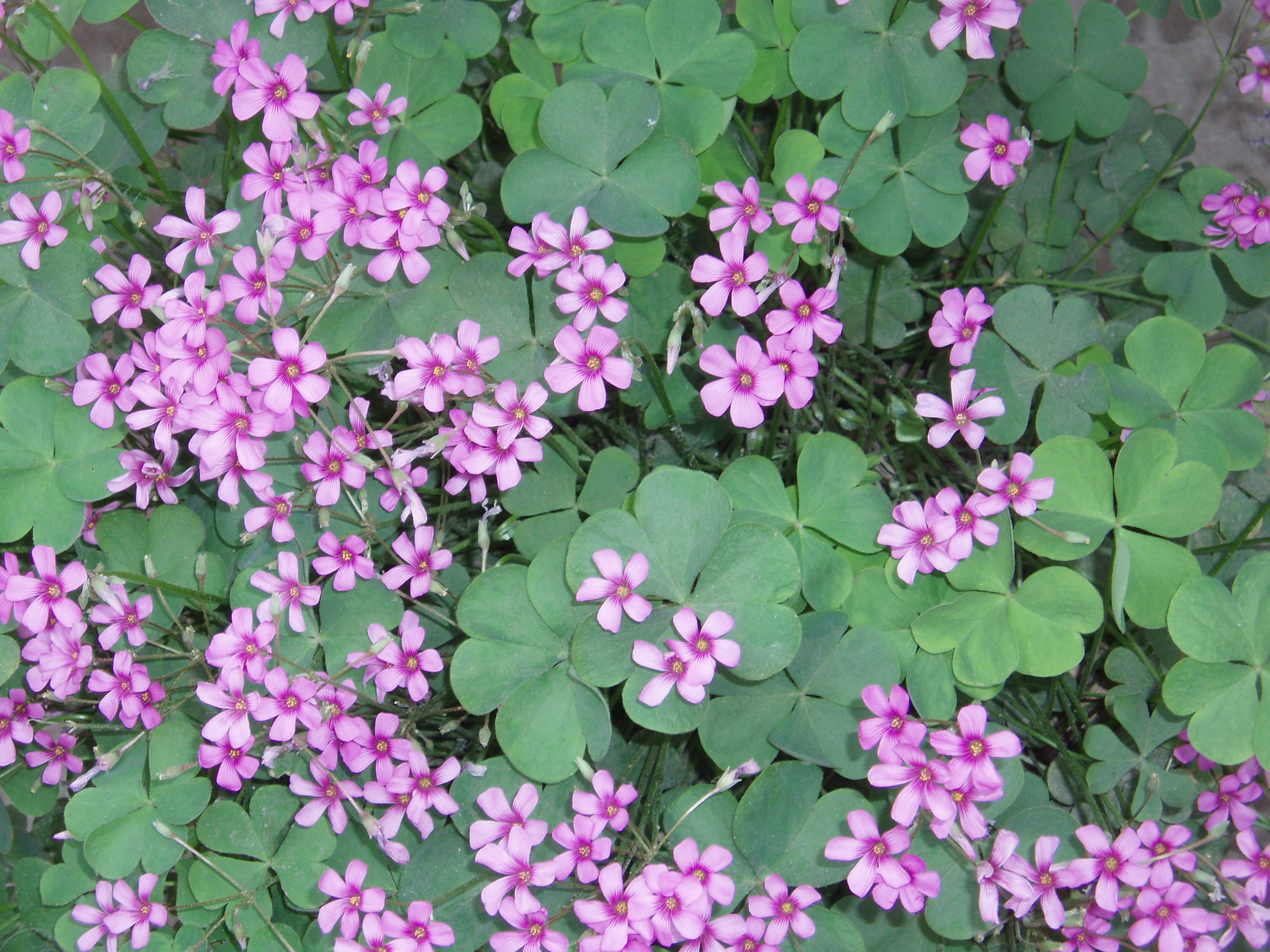 Lavender Sorrel Oxalis corymbosa